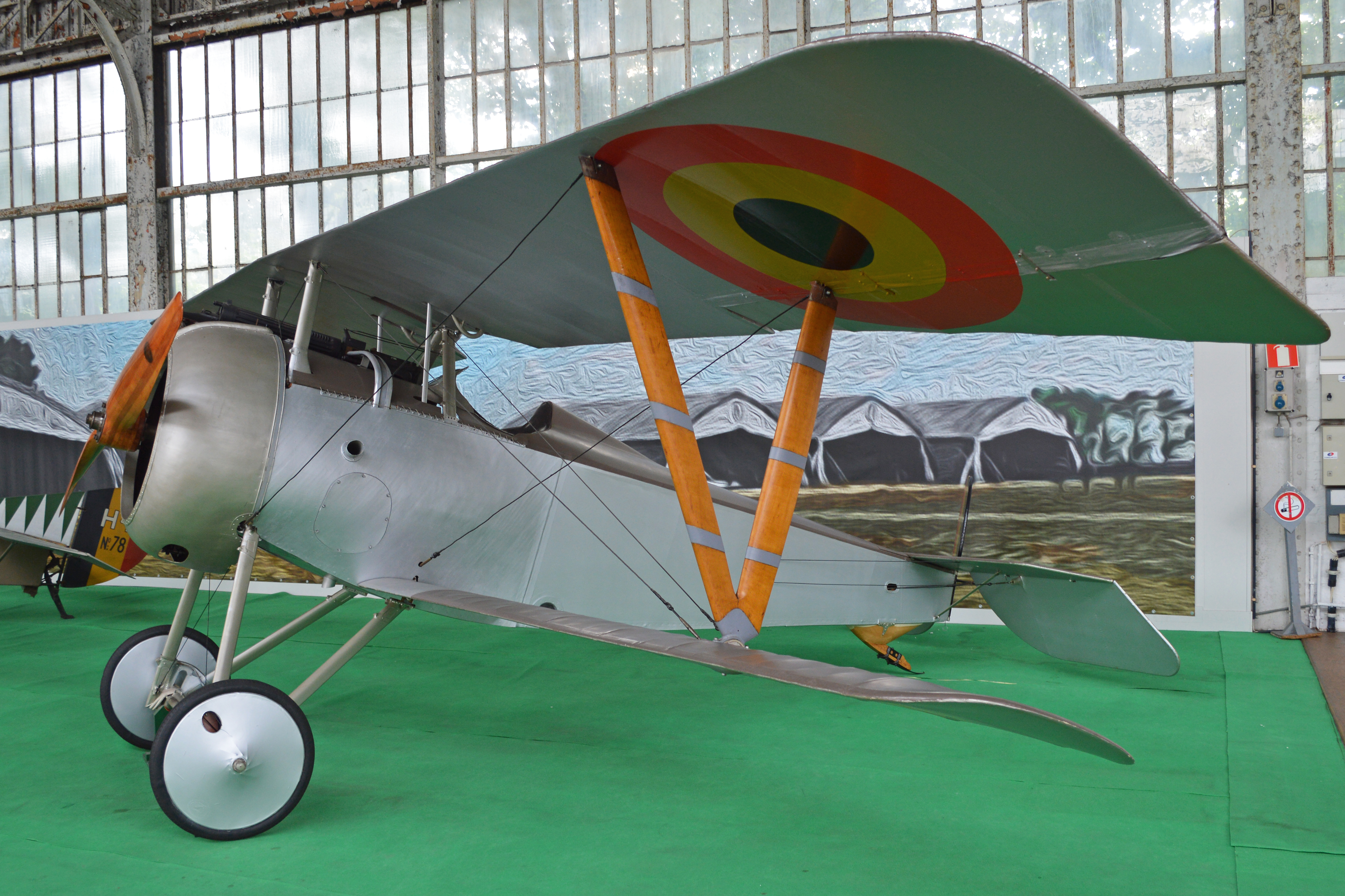 c/n 742. This is the only surviving example of one of the greatest fighter types of World War One. Developed from the almost identical Nieuport 17, the Nieuport 23 had improved interrupter gear, the only visible clue to this being the offset Vickers gun. Acquired in the 1920’s but only recently restored, the Nieuport is on display at what is known as the Brussels Air Museum, although it is actually the Air and Space Section of the Royal Museum of the Armed Forces and Military History. Brussels, Belgium. 26th June 2016 Note that the rudder is turned and is almost invisible in this shot!